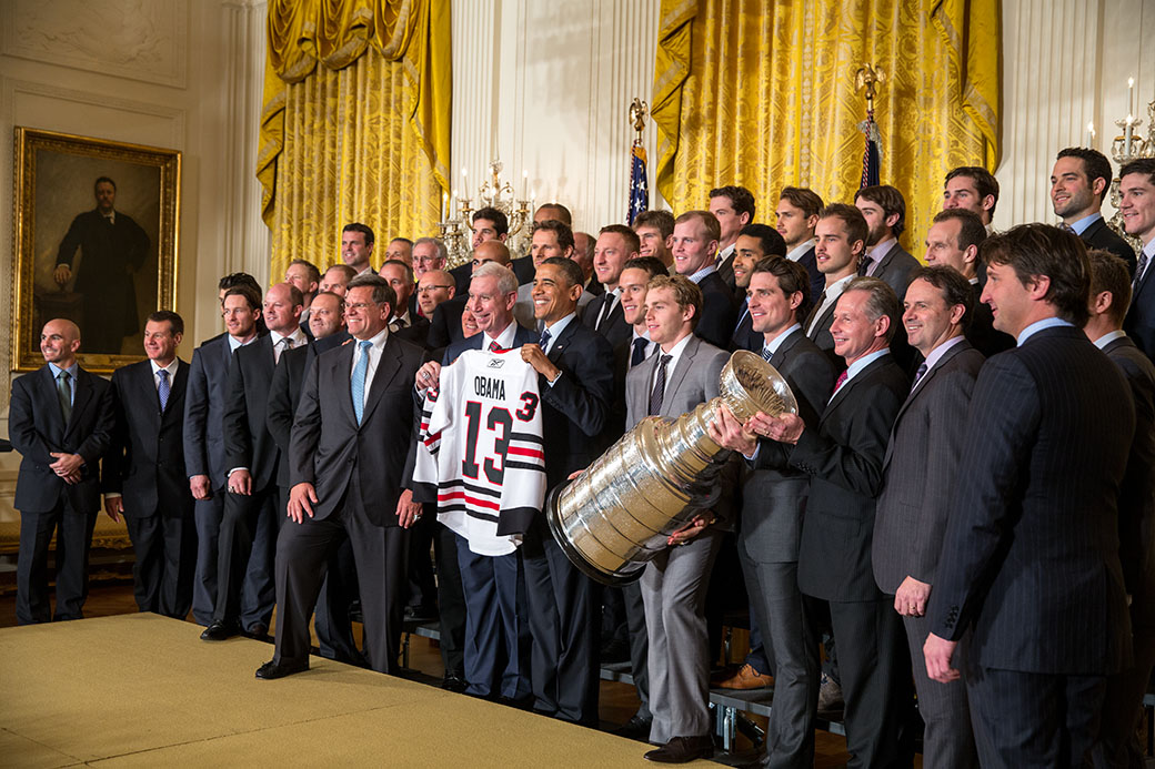 President Barack Obama hosts the Stanley Cup Champion Chicago Blackhawks in the East Room of the White House, November 4, 2013.